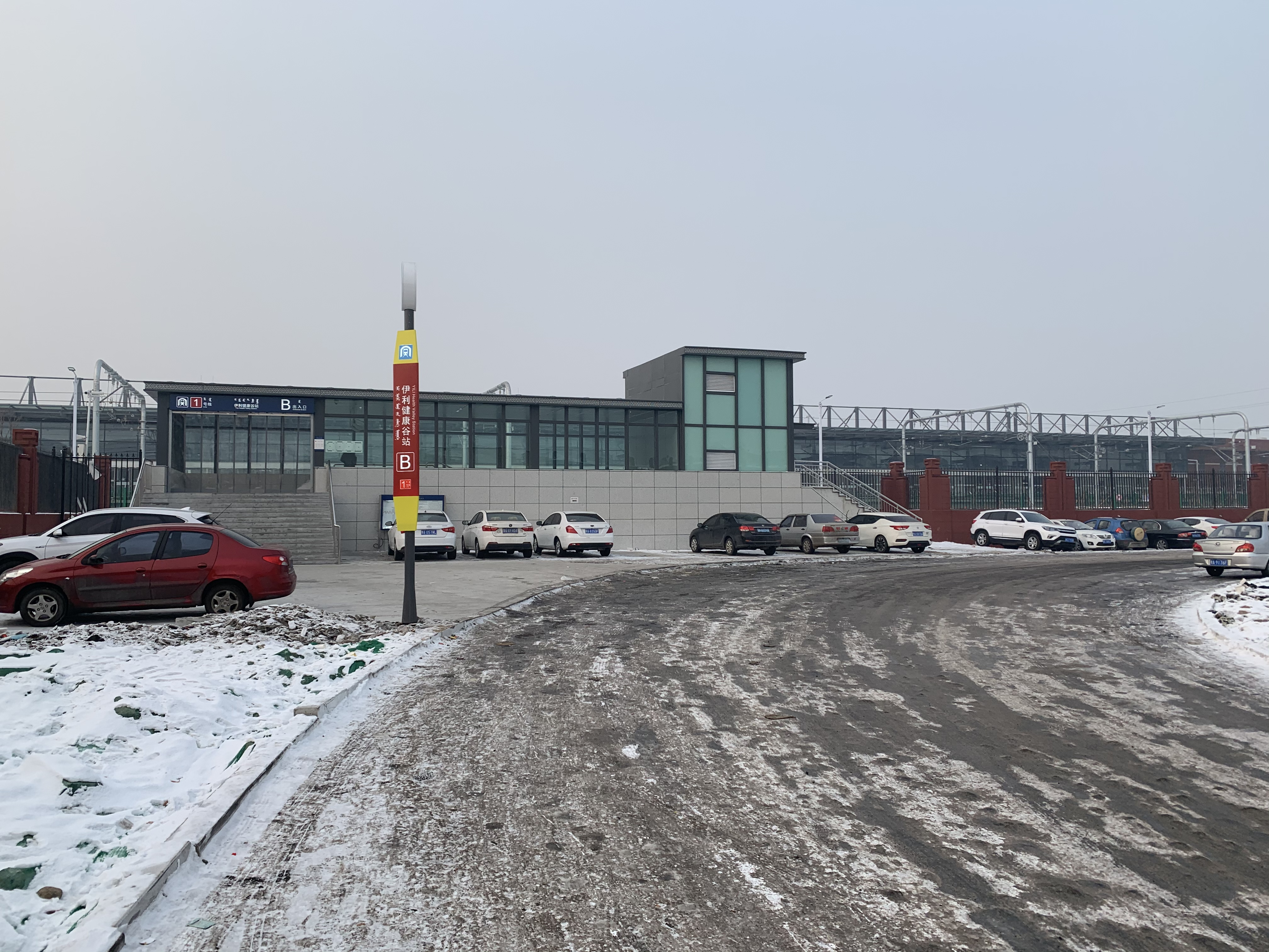 One of the entrances to the metro station Yili Health Valley